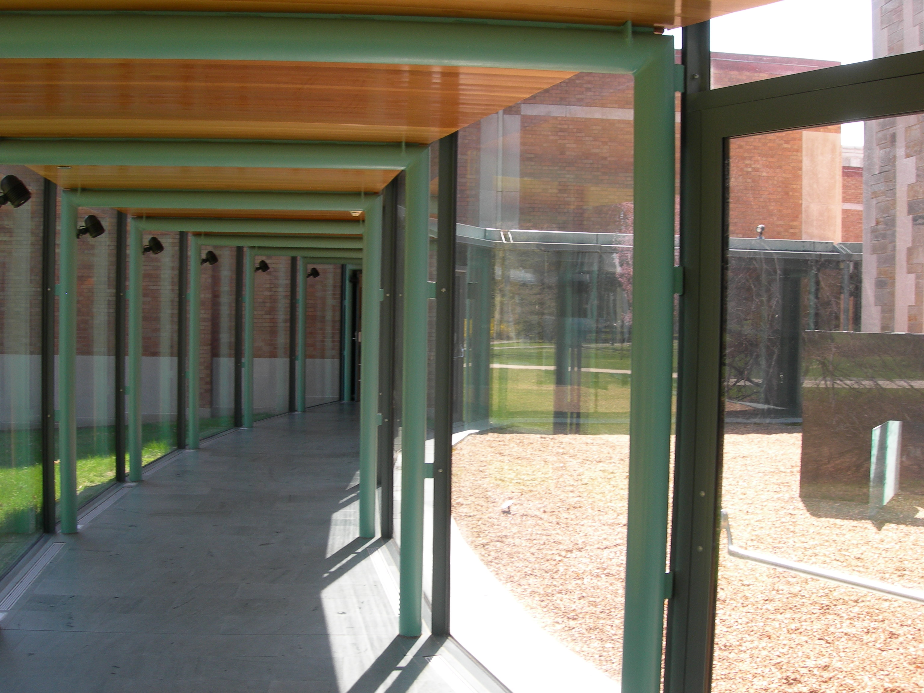 Francis Lehman Loeb Art Center at Vassar College, Poughkeepsie, New York